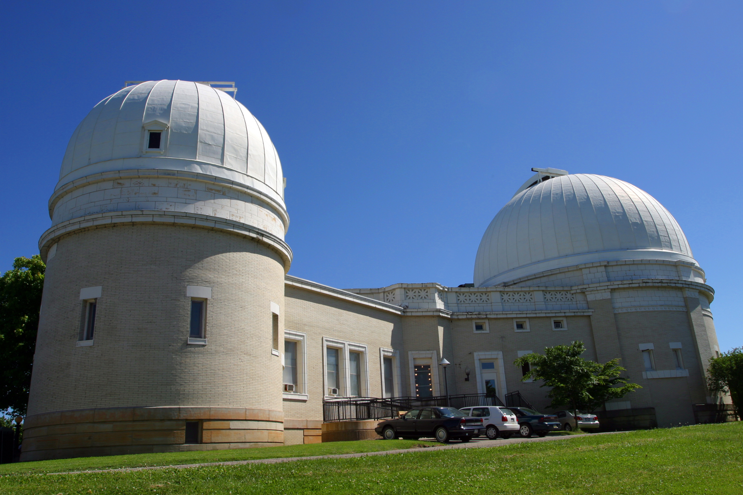 The Allegheny Observatory (eastern aspect) in 2007.